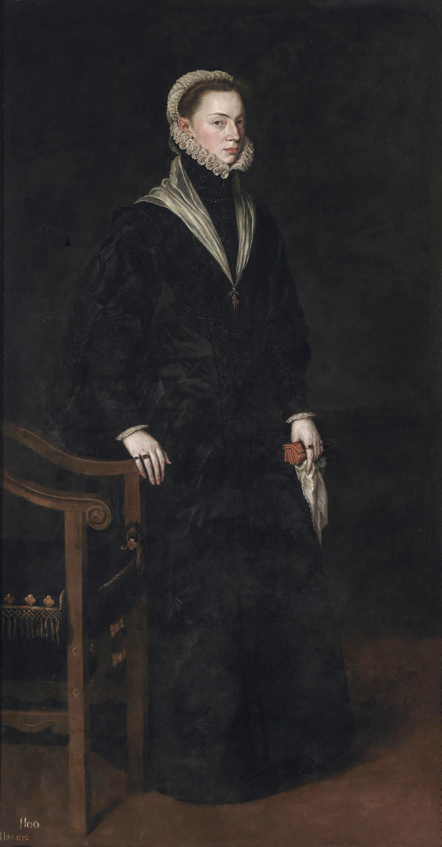 Infanta Juana (Johanna) of Spain, Princess of Portugal, daughter of King Carlos V. of Spain and Isabella of Portugal, wife of of Juan Manuel de Portugal, mother of King Sebastian I. of Portgual, 1559